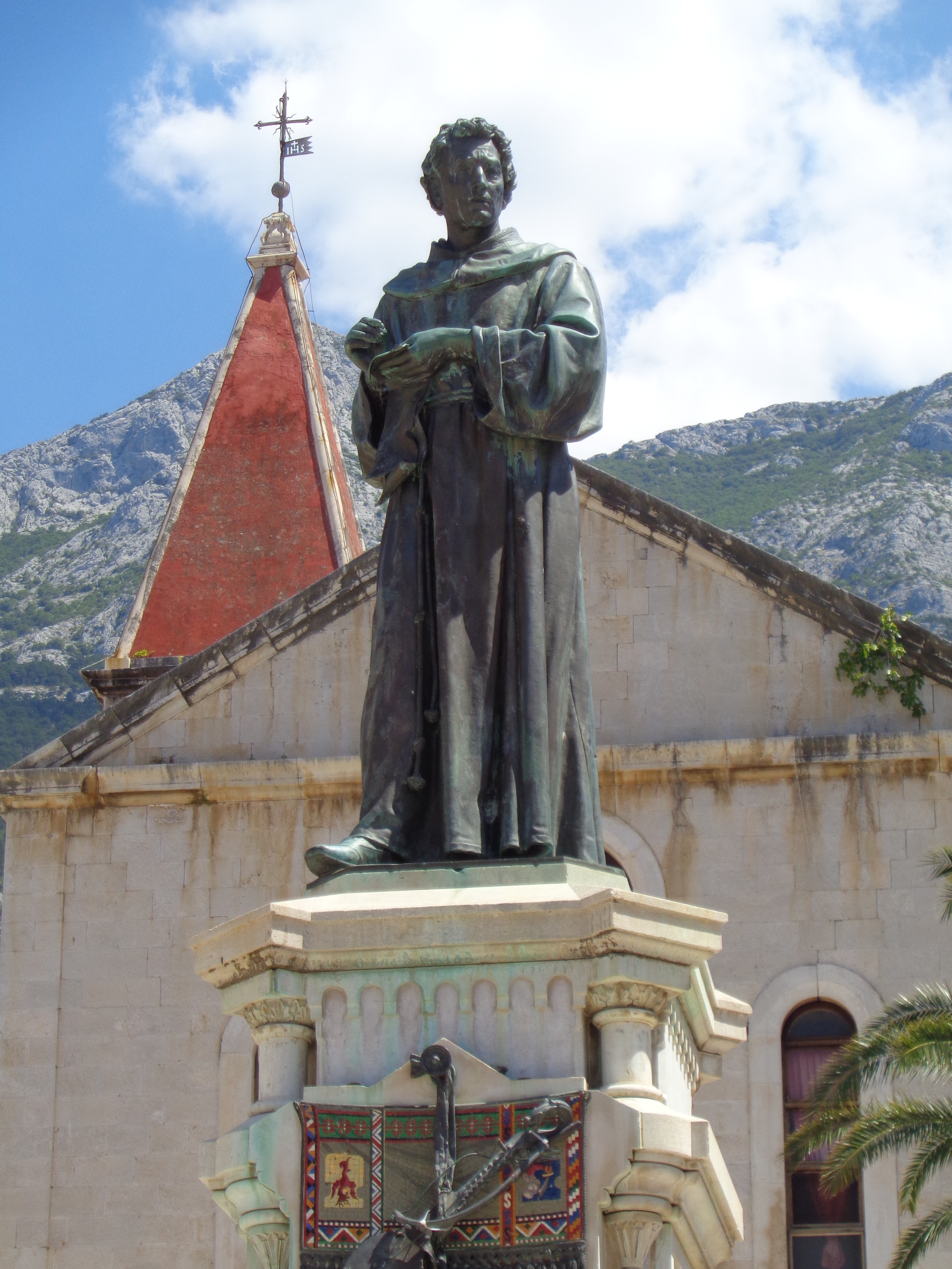 Statue of Andrija kačić Miošić, Croatian friar and poet, in Makarska (Croatia)